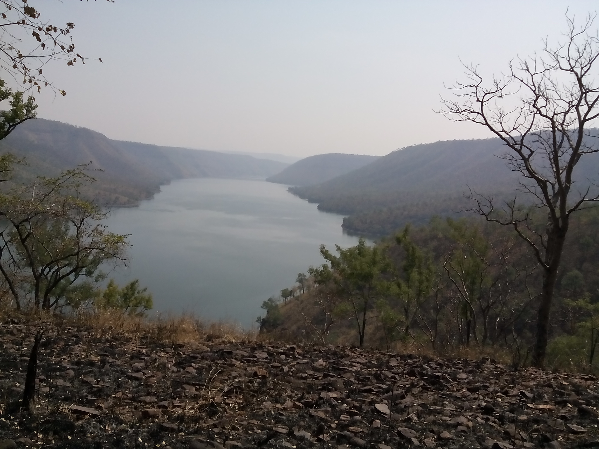 Hill on Top of Nallamalla Hills which is visible on the way to Kadalivanam which is more than 20 Kms from Sri sailam temple. i shoot this image on Trakking in nallamalla forest for Kadalivanam yatra on 09/02/2013